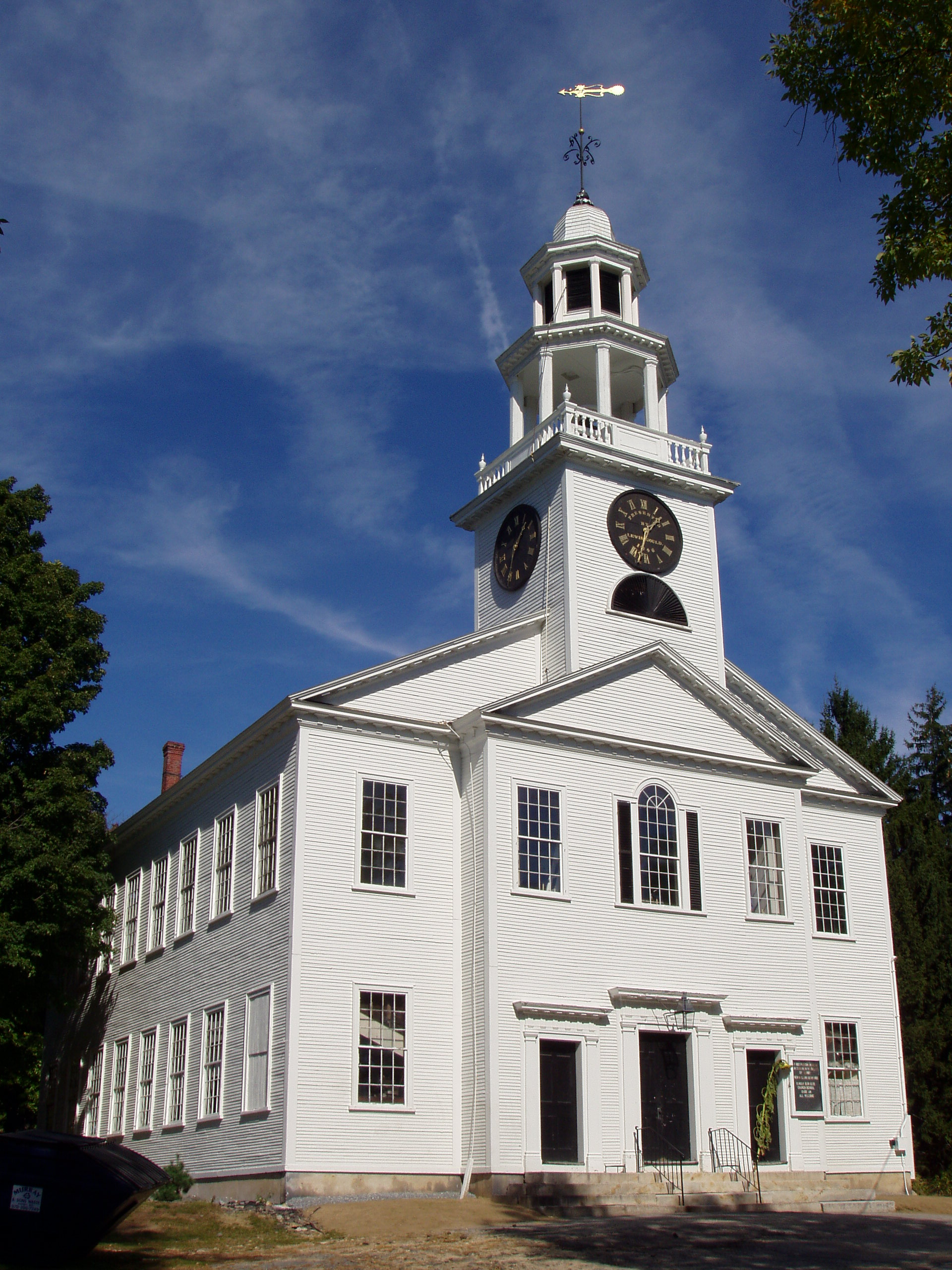 First Parish Church (Unitarian Universalist) - Ashby, Massachusetts. This was originally the town's meeting house, built 1809 to a pattern by architect Asher Benjamin. Photograph taken by me, October 2005.